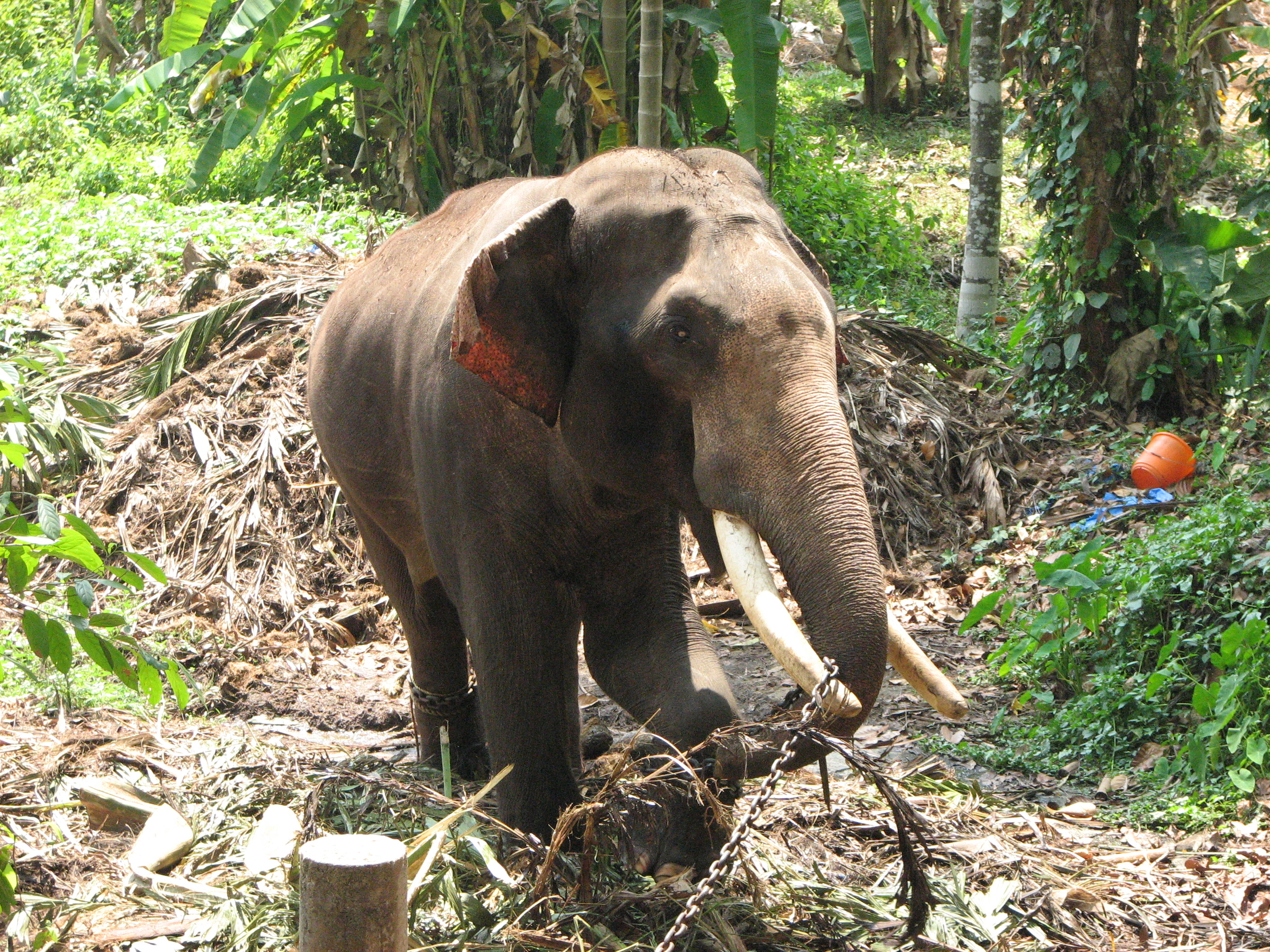 An elephant named Neelakantan (owned by Chirakkadavu Sree Mahadeva Temple) trying to break his chain whilwe in Musth.